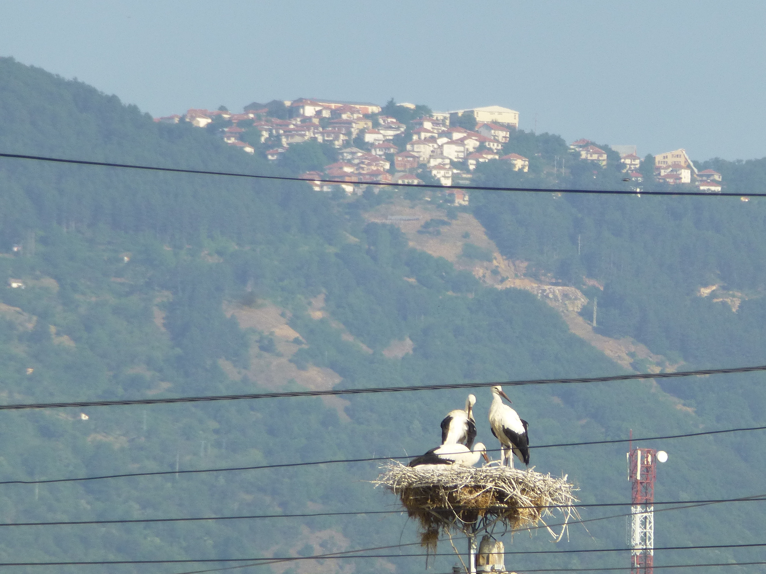 The village of Krivogashtani in Macedonia. Plenty of stork nests there! One can see Krushevo on the hilltop in the background